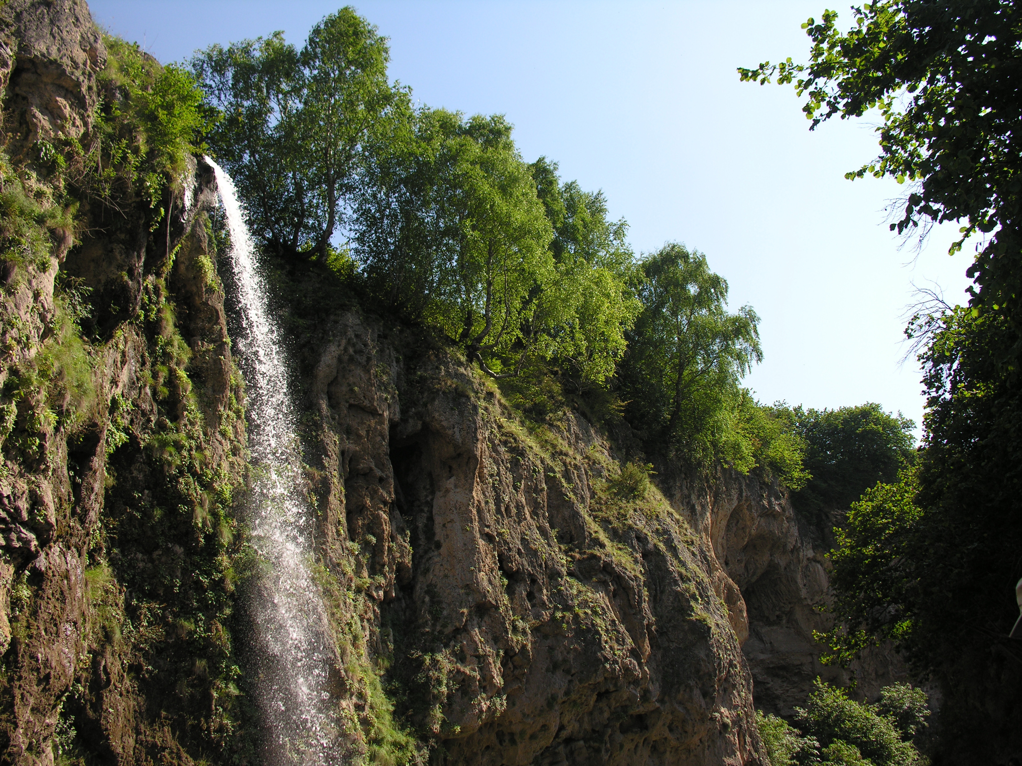 Honey waterfalls, Kislovodsk, Russia.